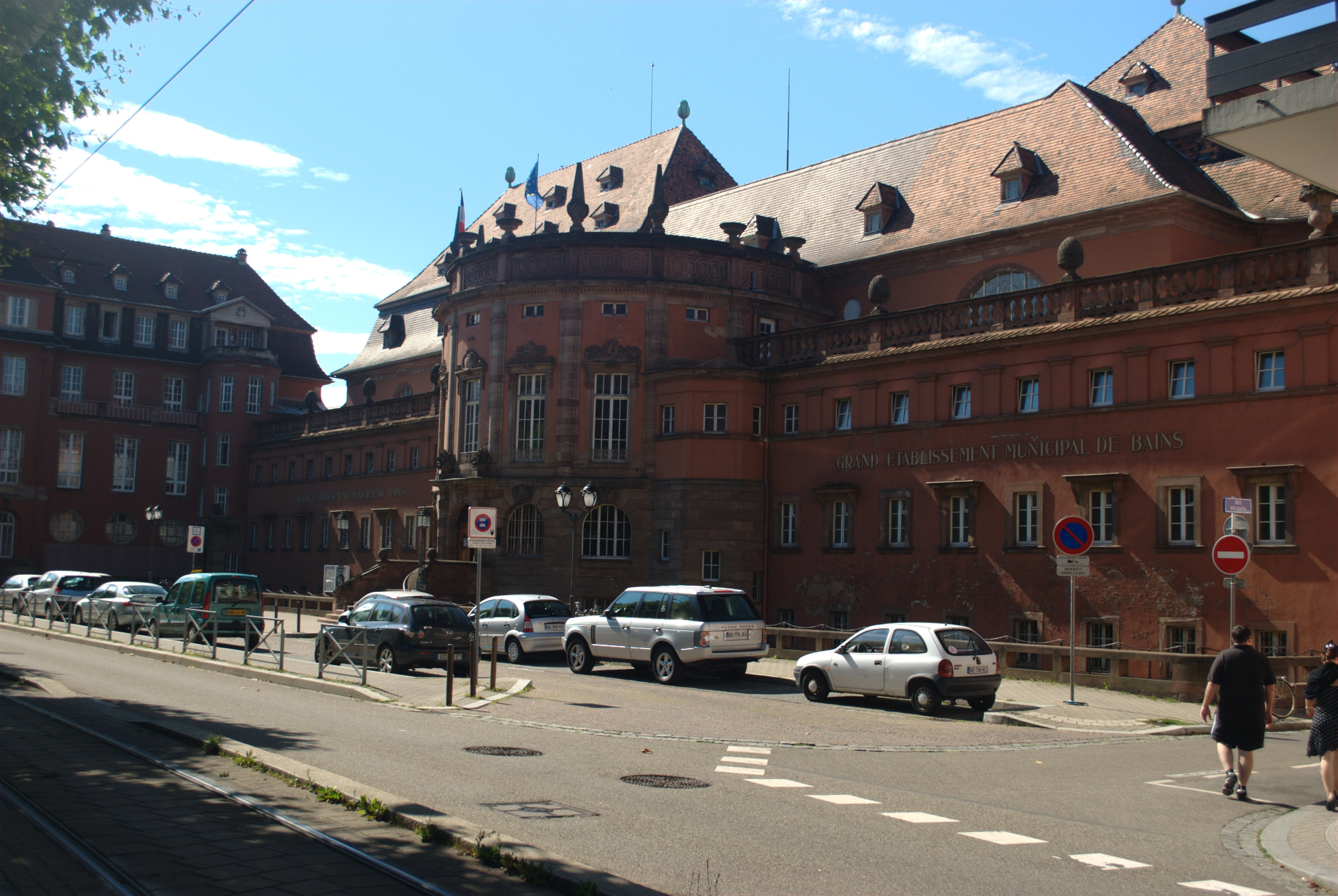 Bains publics, Strasbourg